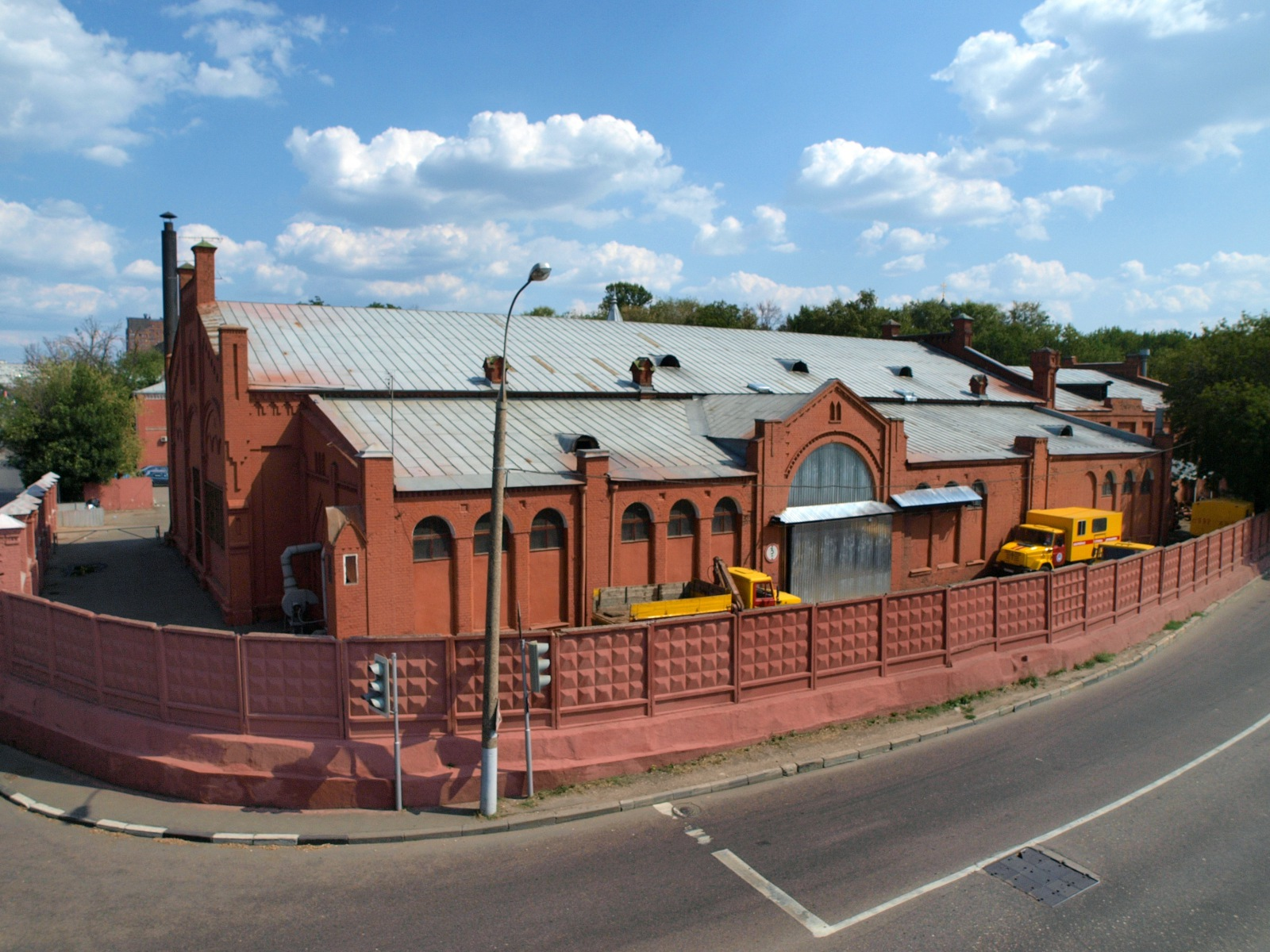 Museum of water, Moscow.